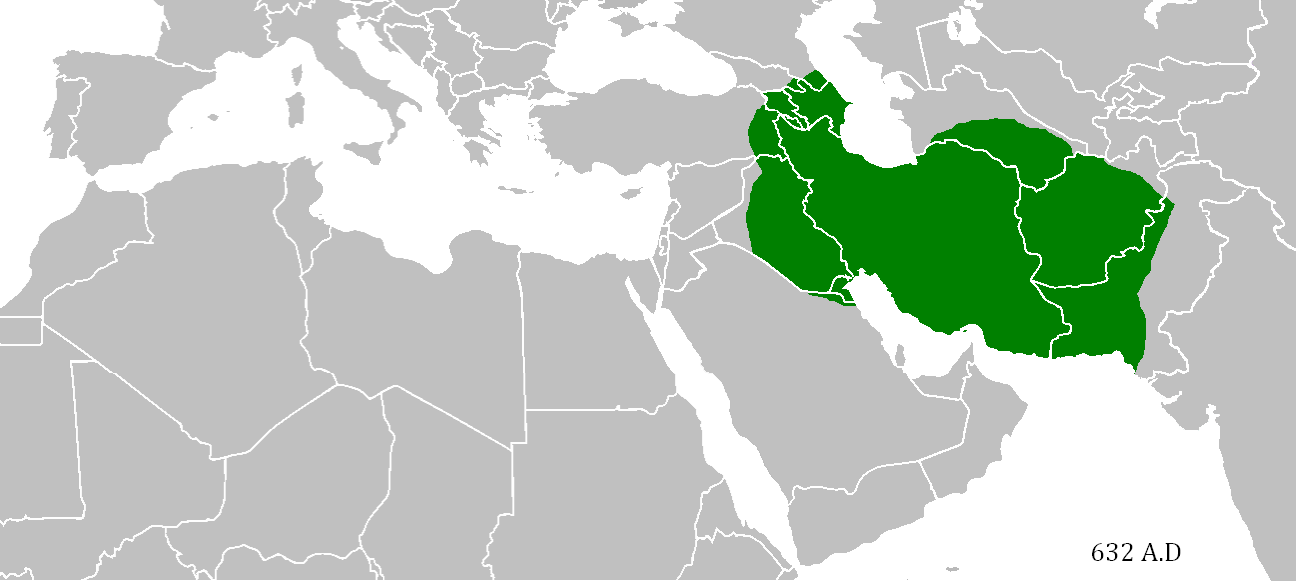 Map of the Sassanid Empire just before the Arab conquest of Iran.